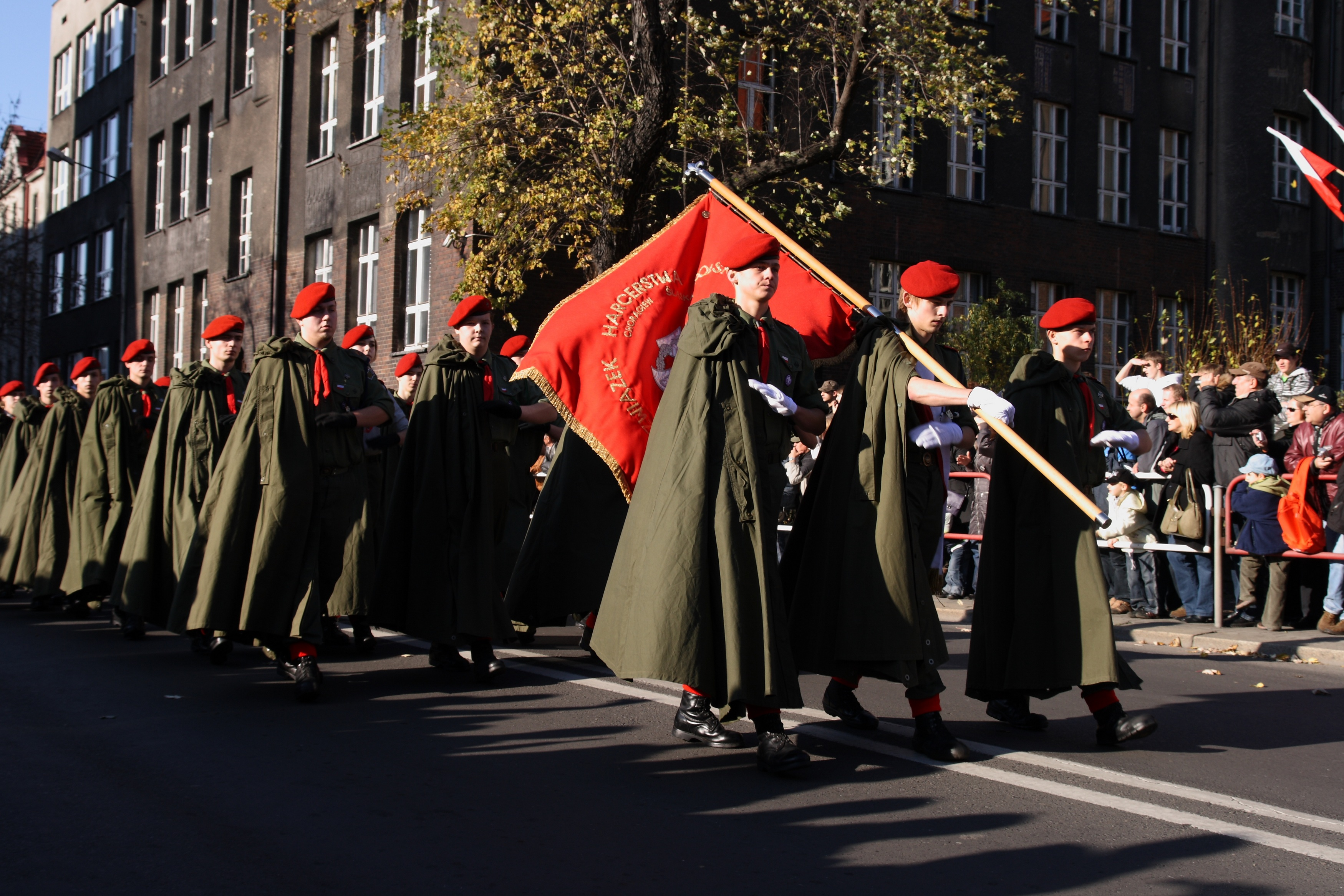 Independence Day 2008 in Katowice.